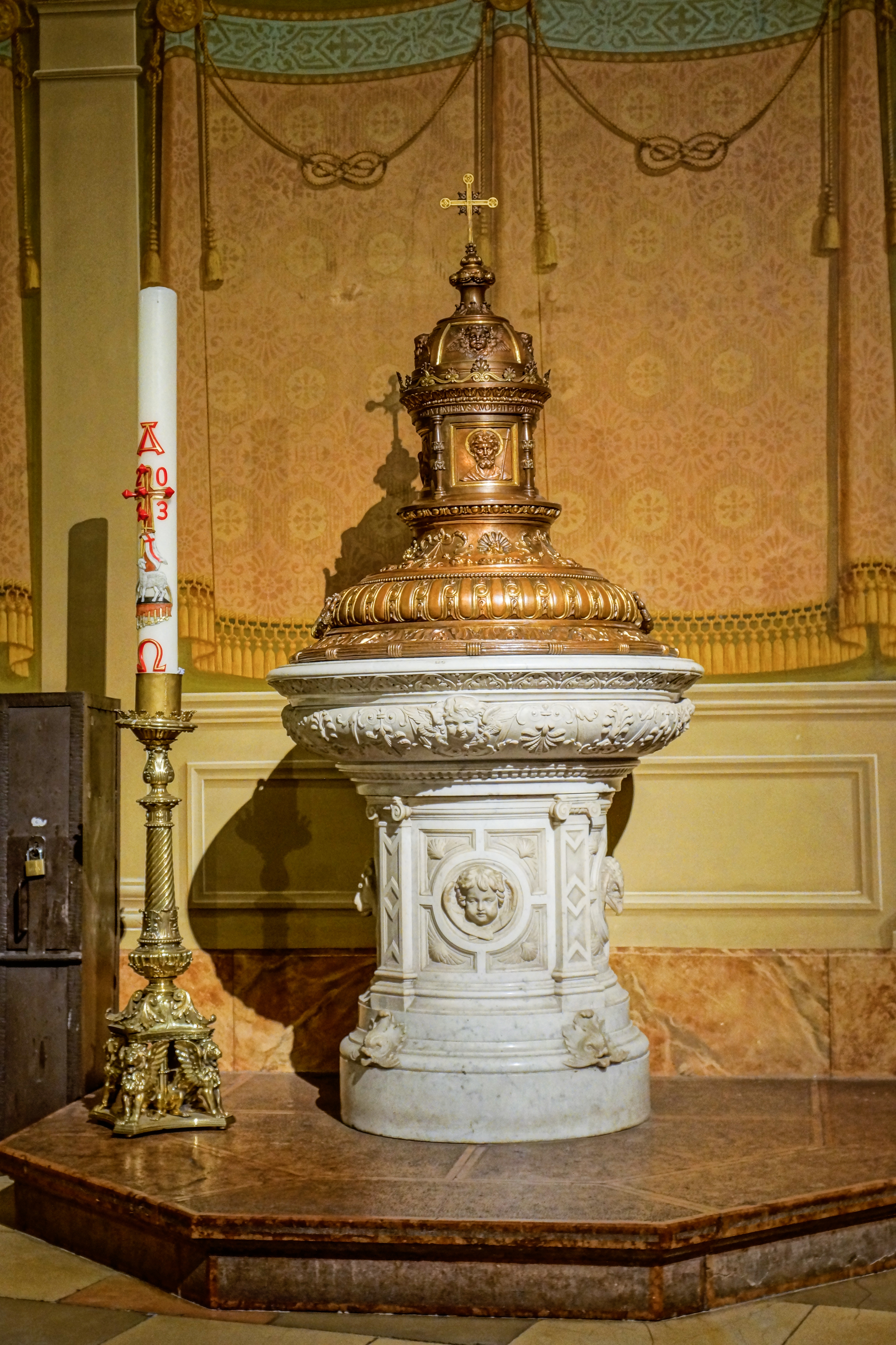 Saint Stephen's Basilica in Budapest, Hungary. This photo was taken with Sony SLT-A77 camera, thanks to cooperation with Sony Poland.You can see all photographs in category Taken with Sony SLT-A77. English | polski | +/−